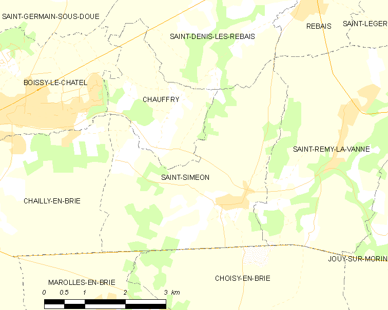 Map of French municipality Saint-Siméon